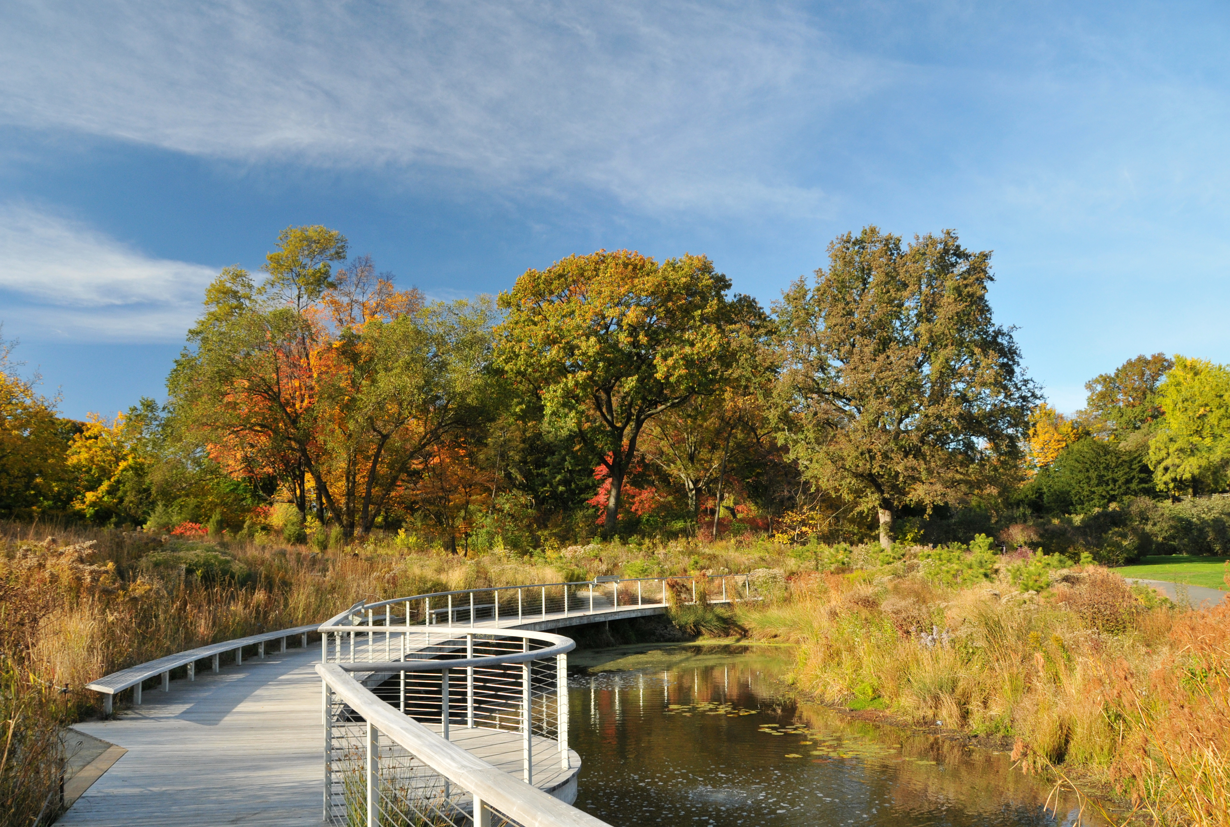 A view of the Brooklyn Botanic Garden's Native Flora Garden Expansion in the fall. Originally published here.